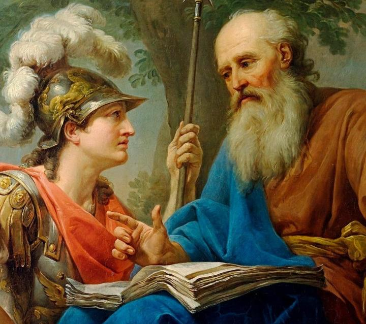 Marcello Bacciarelli - Alcibiades Being Taught by Socrates, 1776-77, cropped